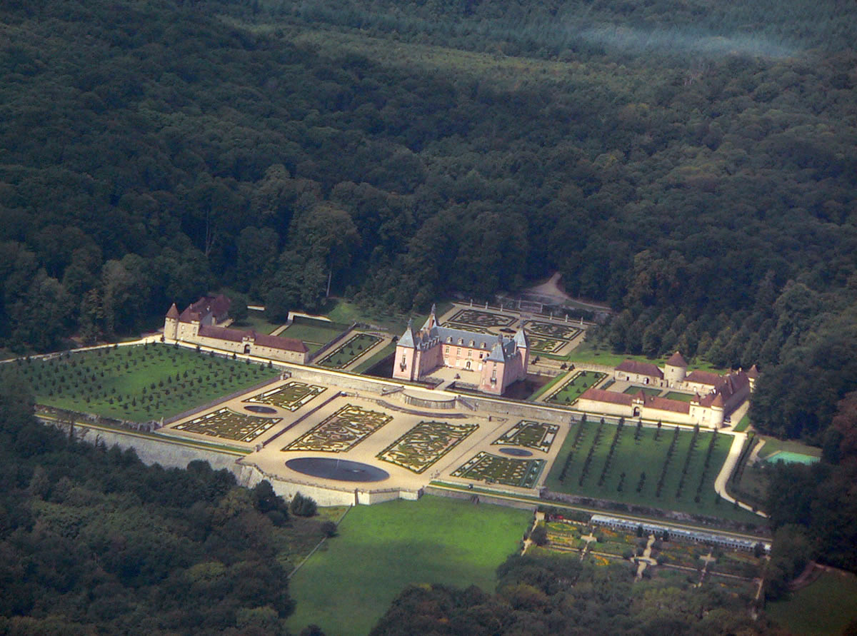 Aeriel view of the Chateau de Montjeu